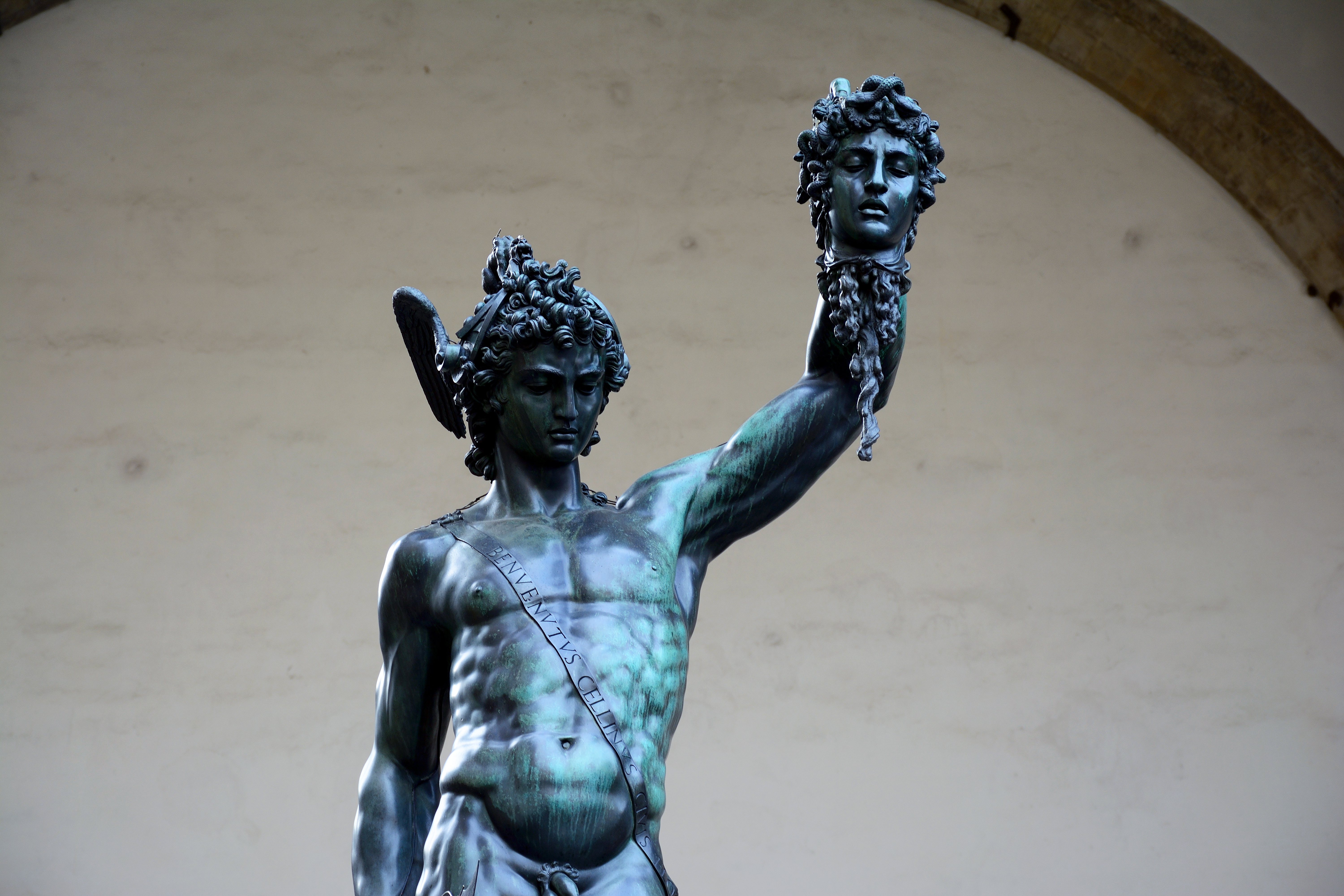 Perseus by Benvenuto Cellini